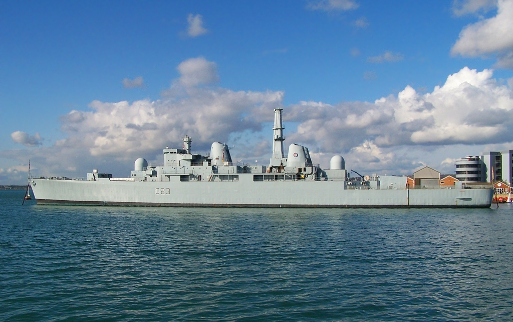 Royal Navy Training Ship HMS Bristol (D23) at HMNB Portsmouth